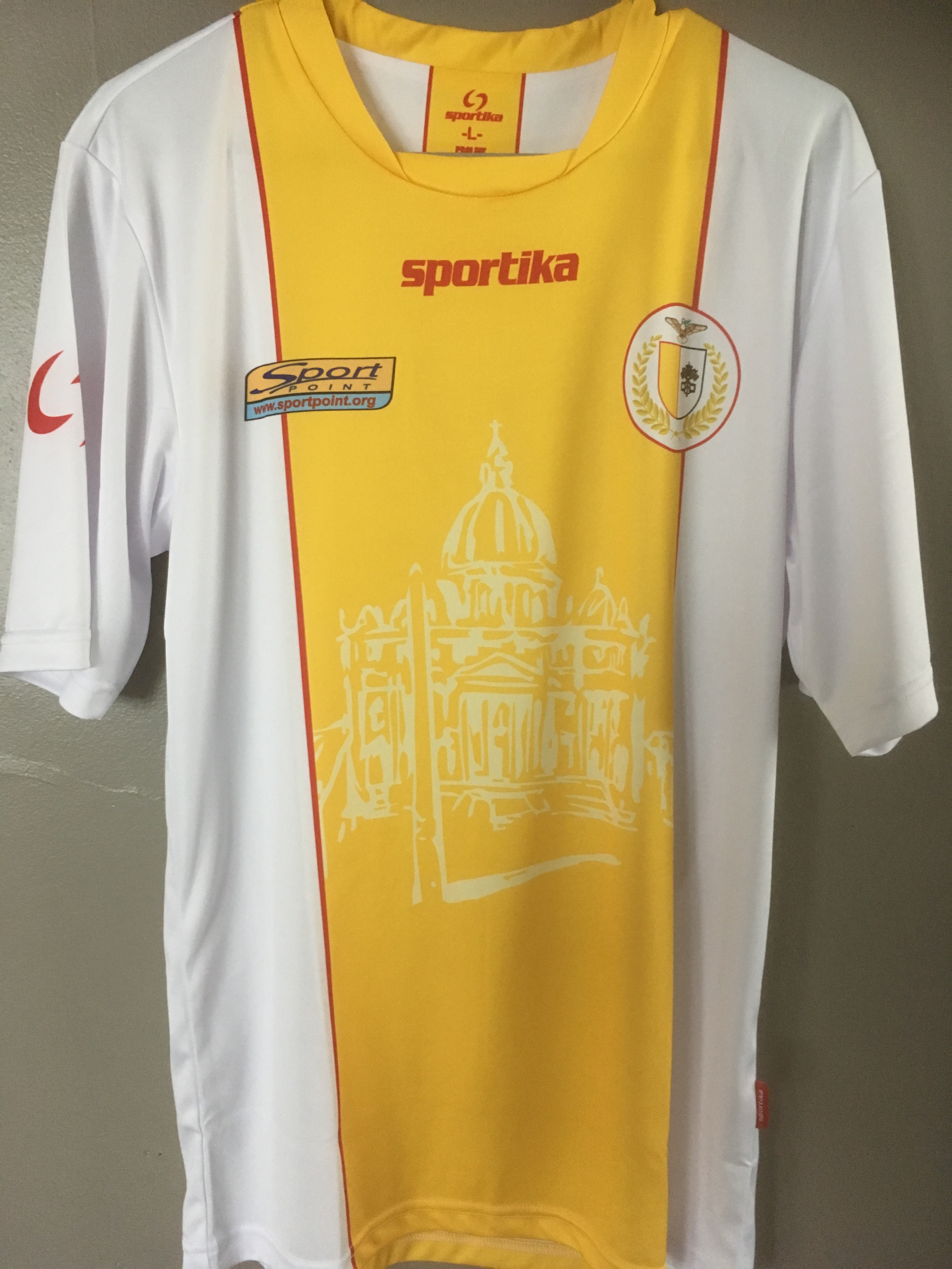 Jersey worn by the Vatican City national football team in April 2017 during a friendly match with Monaco